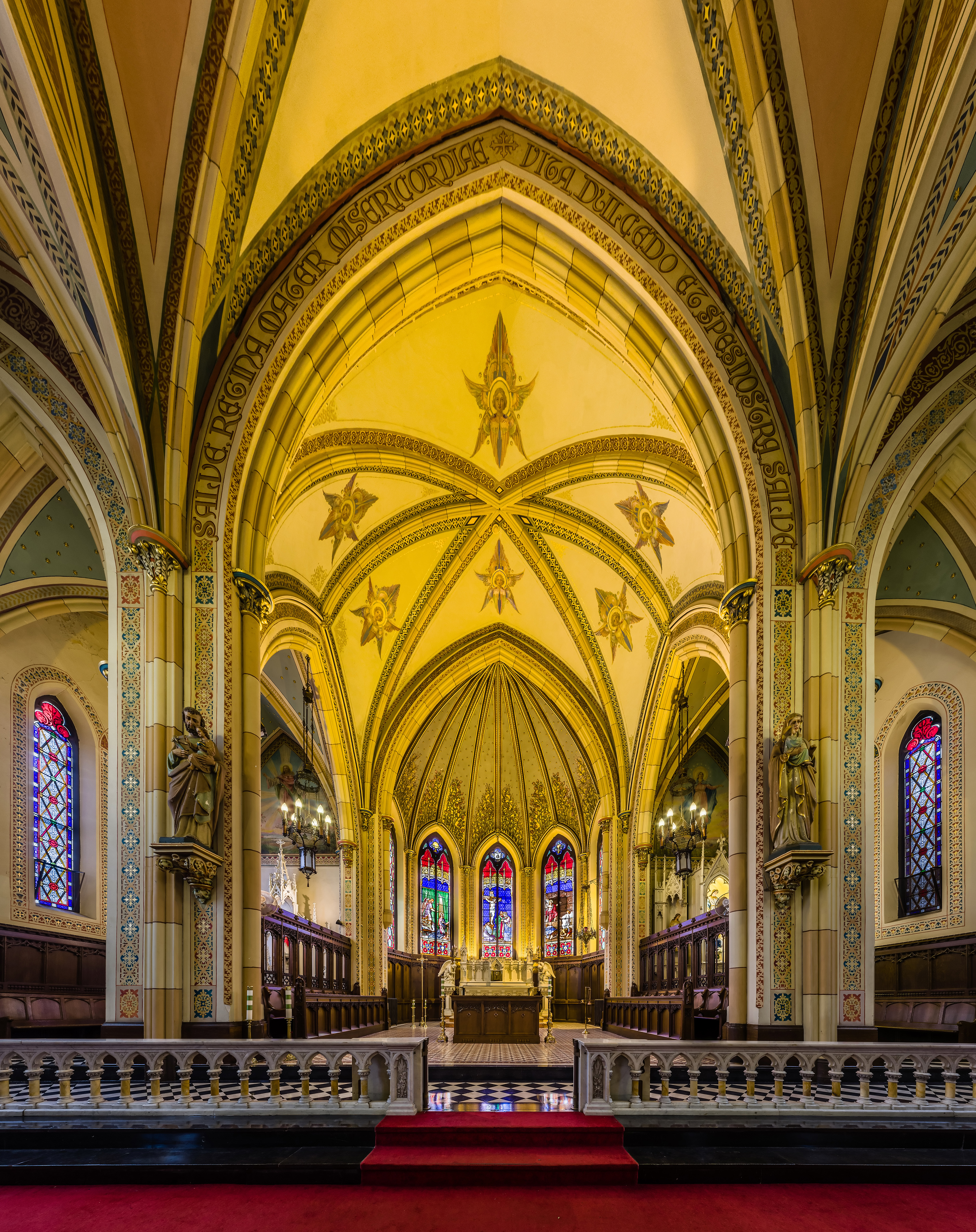 Apse, Assumption Church, Windsor, Ontario, Canada 2015-01-17